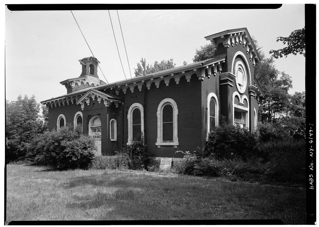 Vine Street School — GENERAL VIEW of WEST SIDE and SOUTH FRONT, Vine & Garden Streets, Lockport, Niagara County, NY Image: Historic American Buildings Survey of New York; HABS NY,32-LOCK,12-1